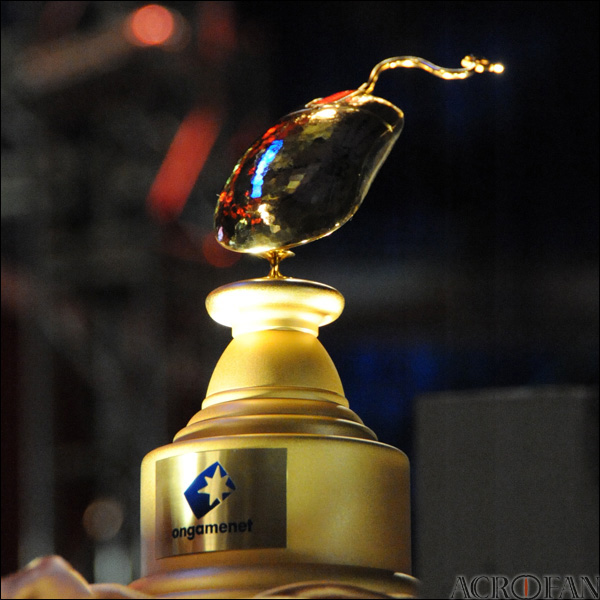 Golden mouse